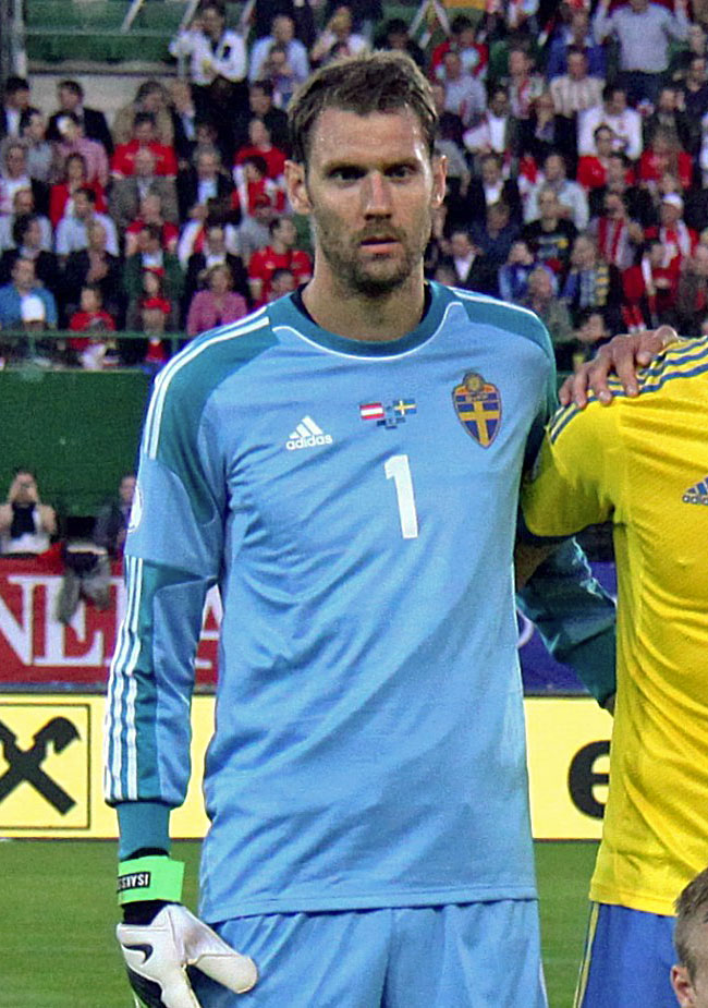 Austria vs Sweden at 2013-06-07 in Ernst-Happel-Stadion in Vienna (2:1). – The photo shows the Swedish goalkeeper Andreas Isaksson.